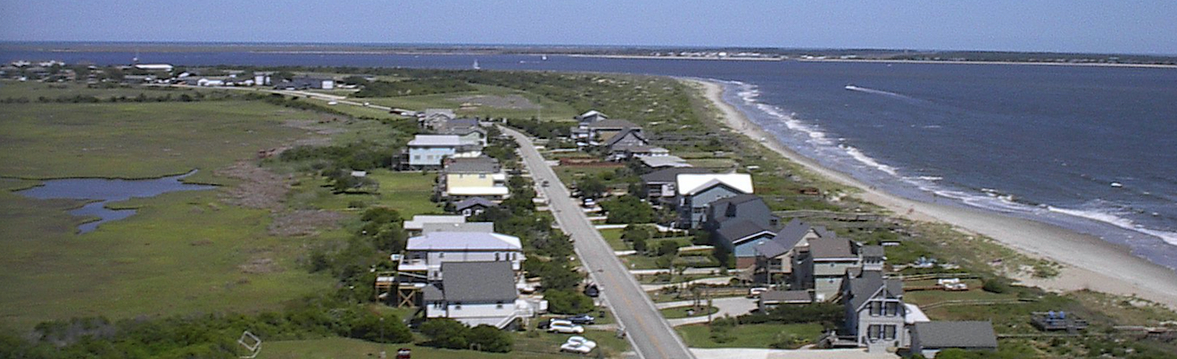 View from atop the Oak Island Lighthouse